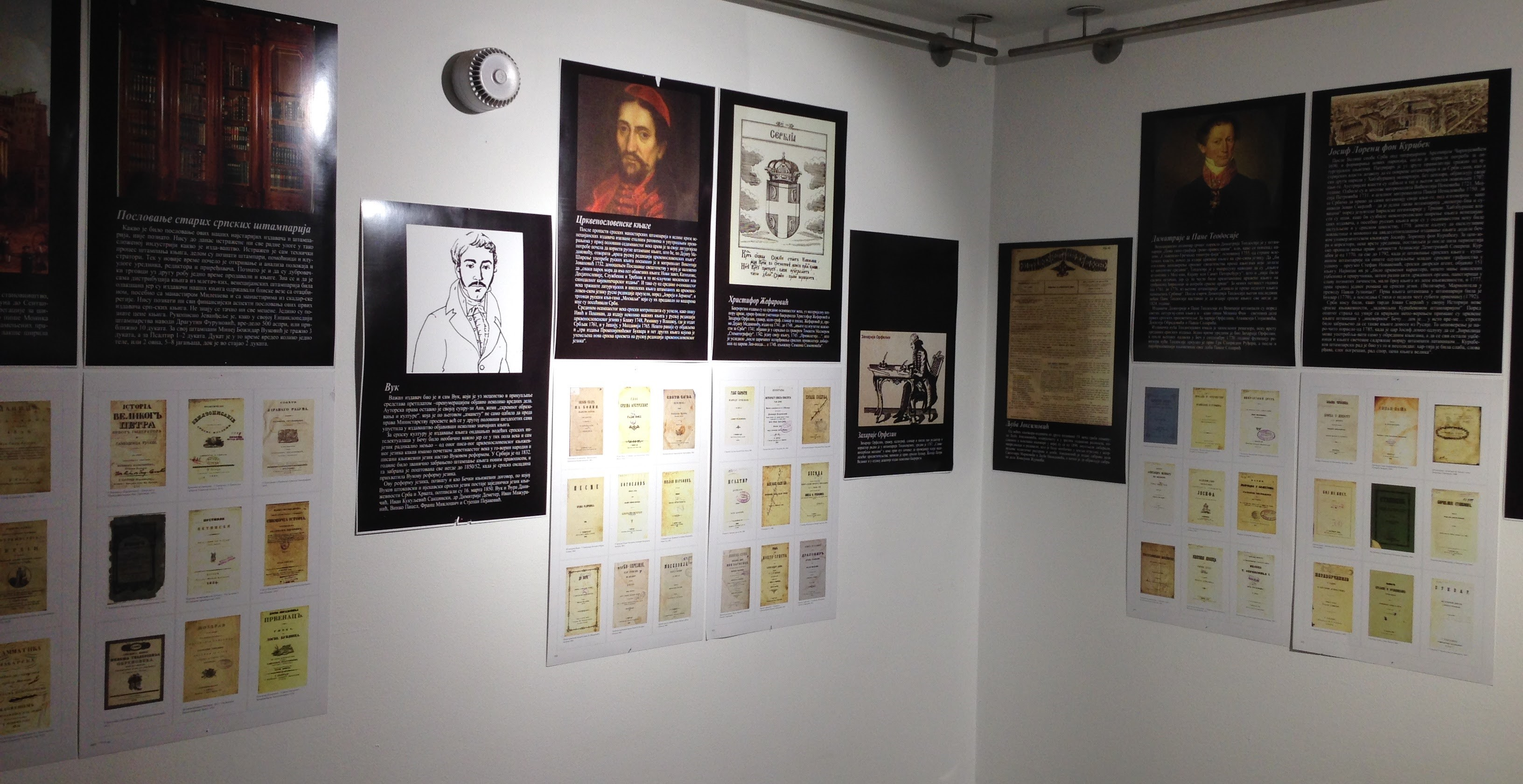 The exhibition at the Gallery of RTS - Old Serbian publishing (1494-1918).